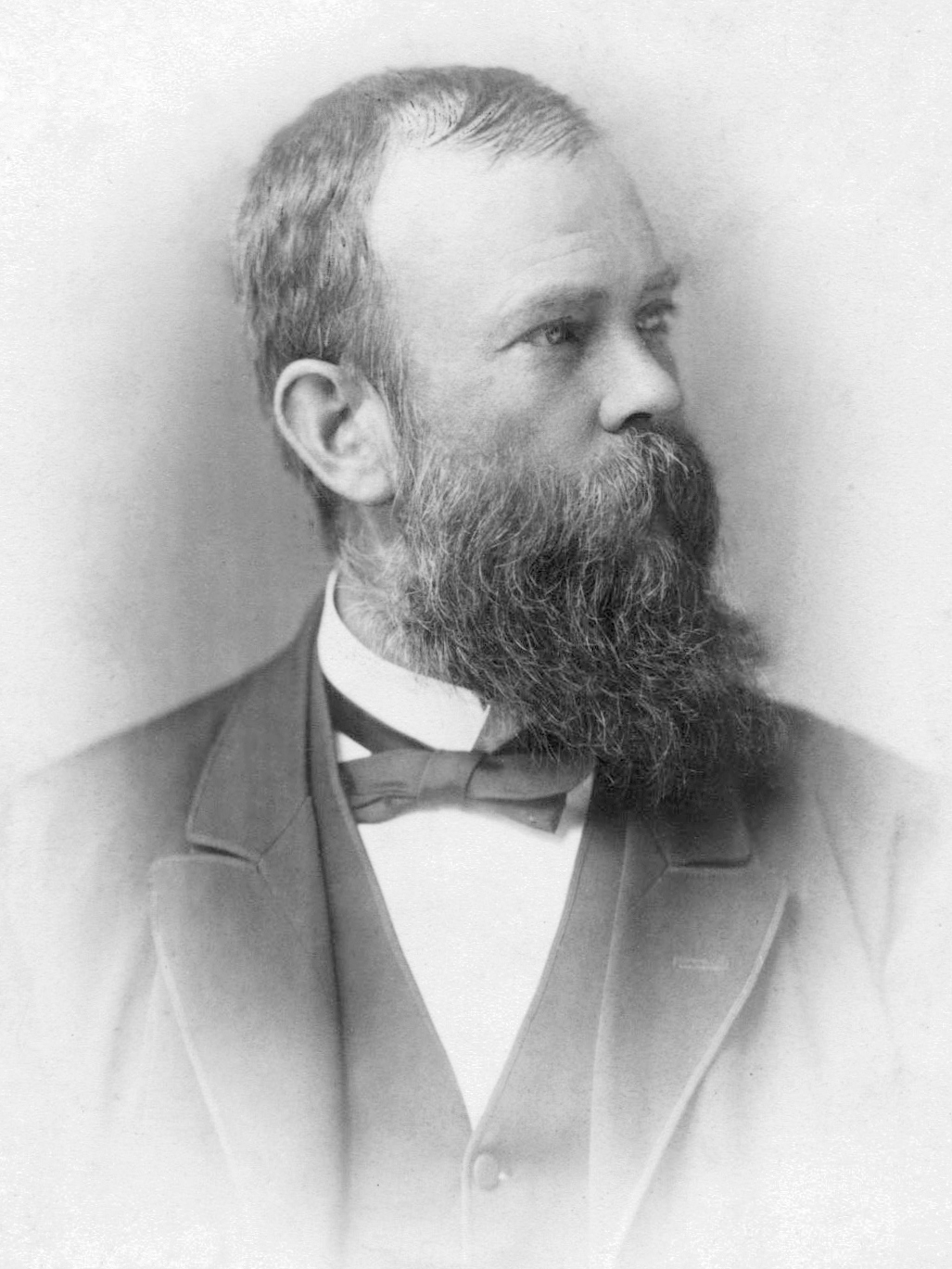 Bloemfontein. Private portrait of State President F.W. Reitz of the Orange Free State, in office 1888-1895.